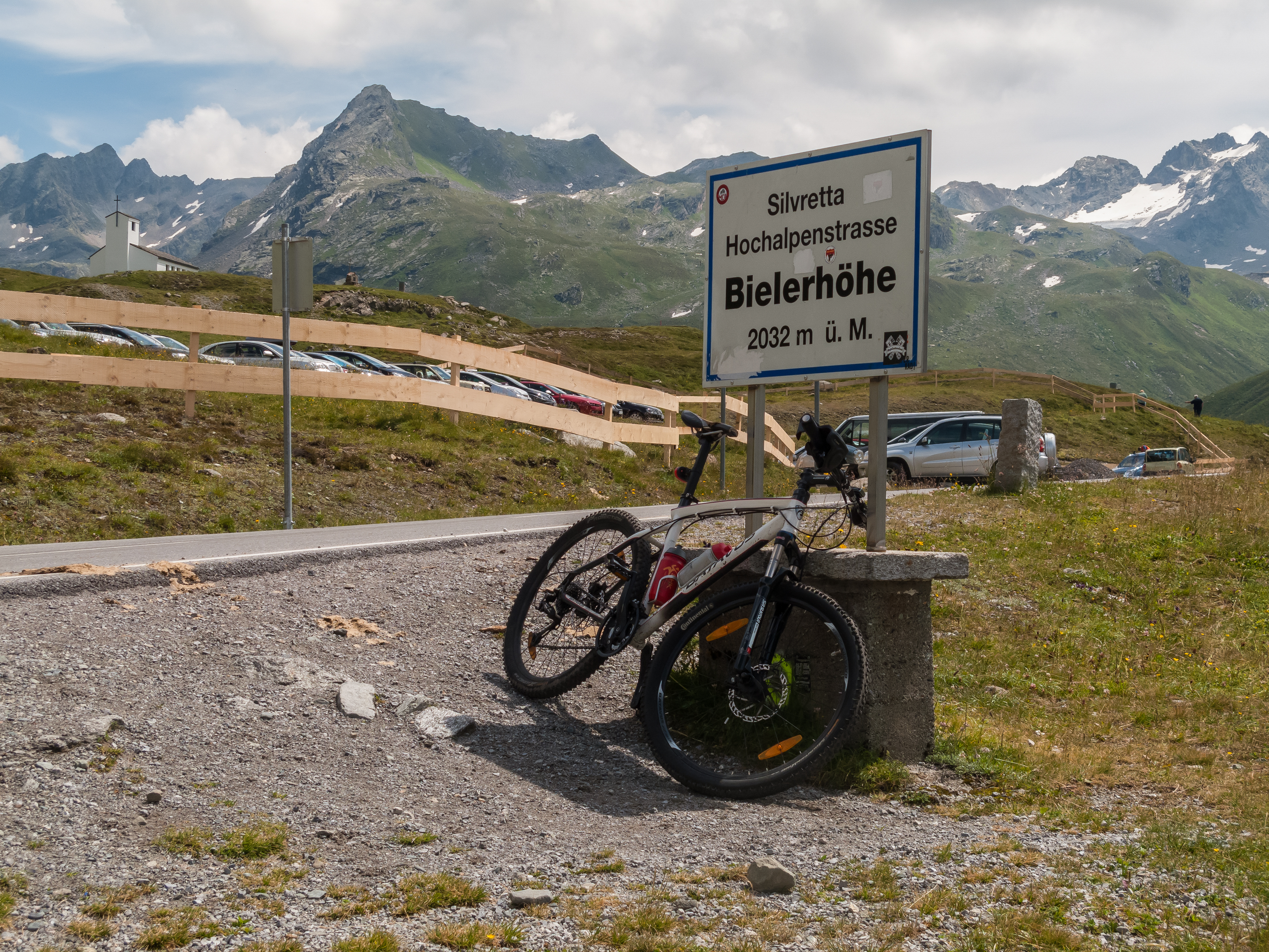 Bielerhöhe, name sign